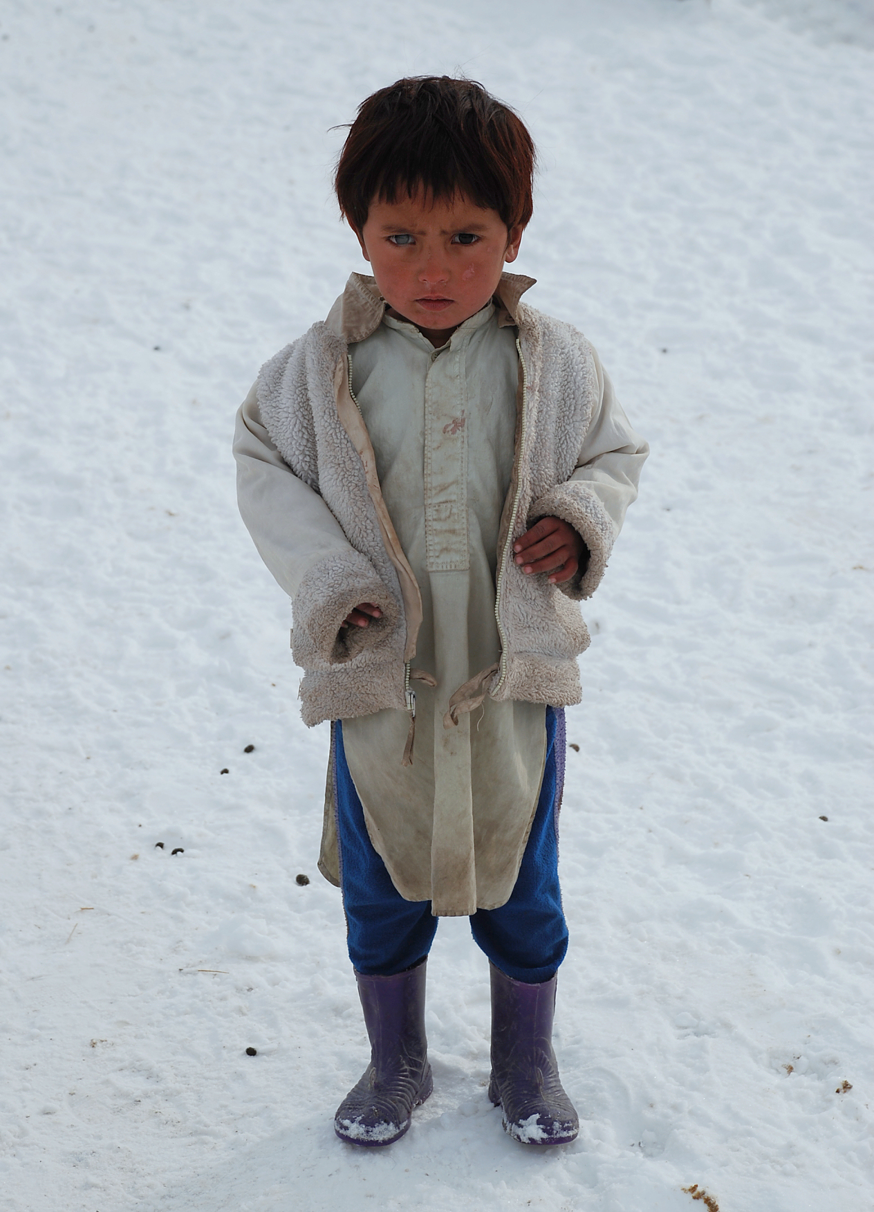 Little boy in Badgah village of Ghor province. Photo by Tomas Balkus of Lithuania.